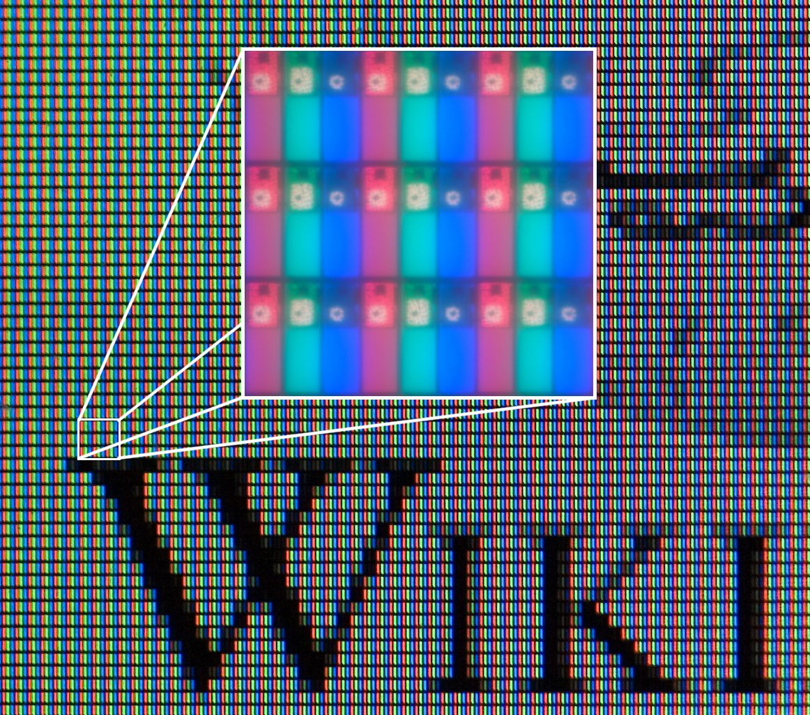 Macro shot of an LCD monitor showing the red, green and blue elements., with zoom-in